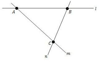 Sample incidence geometry